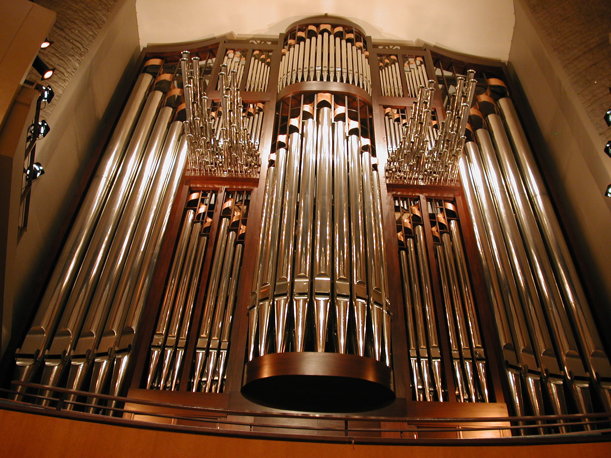 A publicity photo of the Davis Concert Organ at the Francis Winspear Centre for Music © 2004, Edmonton Concert Hall Foundation. Used by permission, a copy of which has has been sent to OTRS. This photograph is a publicity photo from the files of the Edmonton Concert Hall Foundation. Permission has been received from the copyright holder to license this material under the GNU Free Documentation License, and evidence of this has been lodged with the Wikimedia PR department.